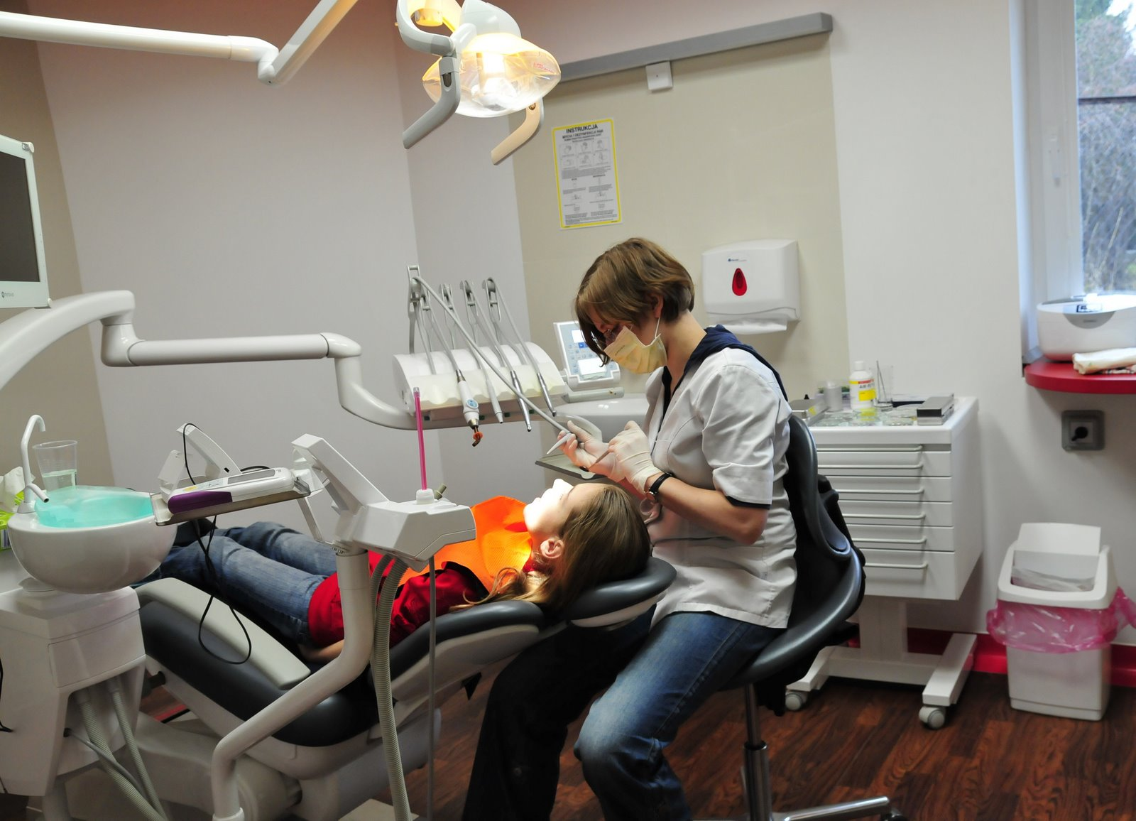 Female having dental examination